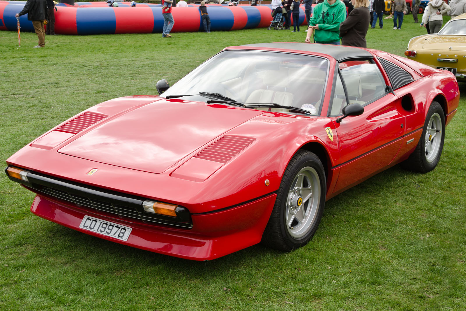 Catton Hall Classic Car Show 05/05/2013